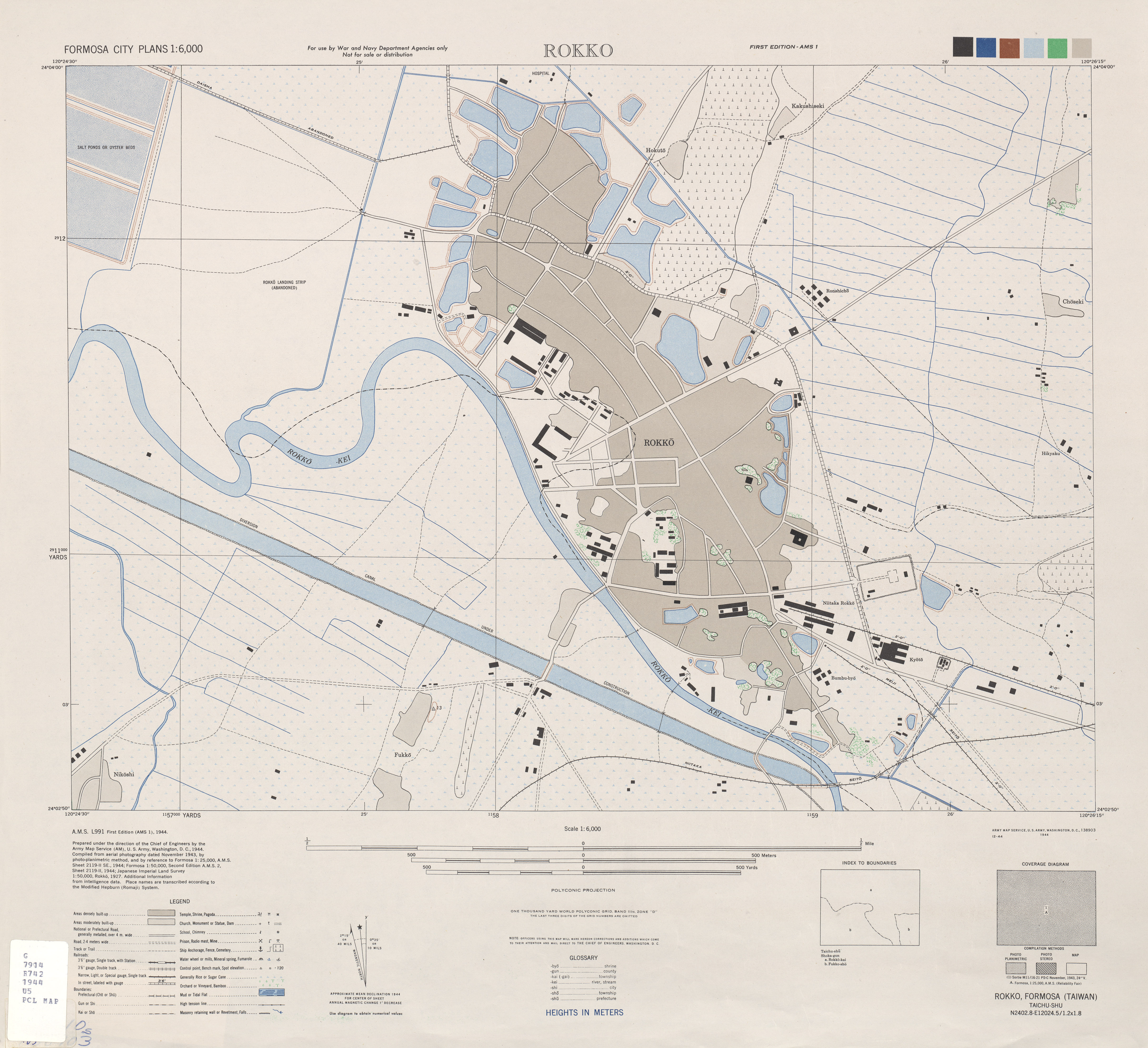 Rokko 1:6,000 1944